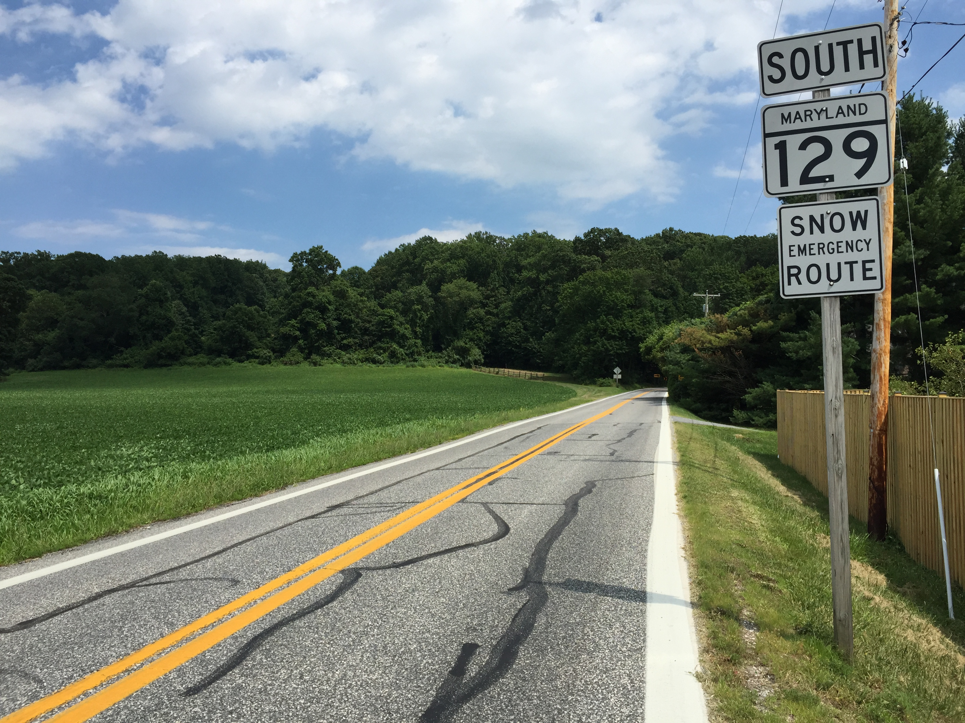 View south along Maryland State Route 129 (Park Heights Avenue) at Garrison Forest Road in Worthington, Baltimore County, Maryland